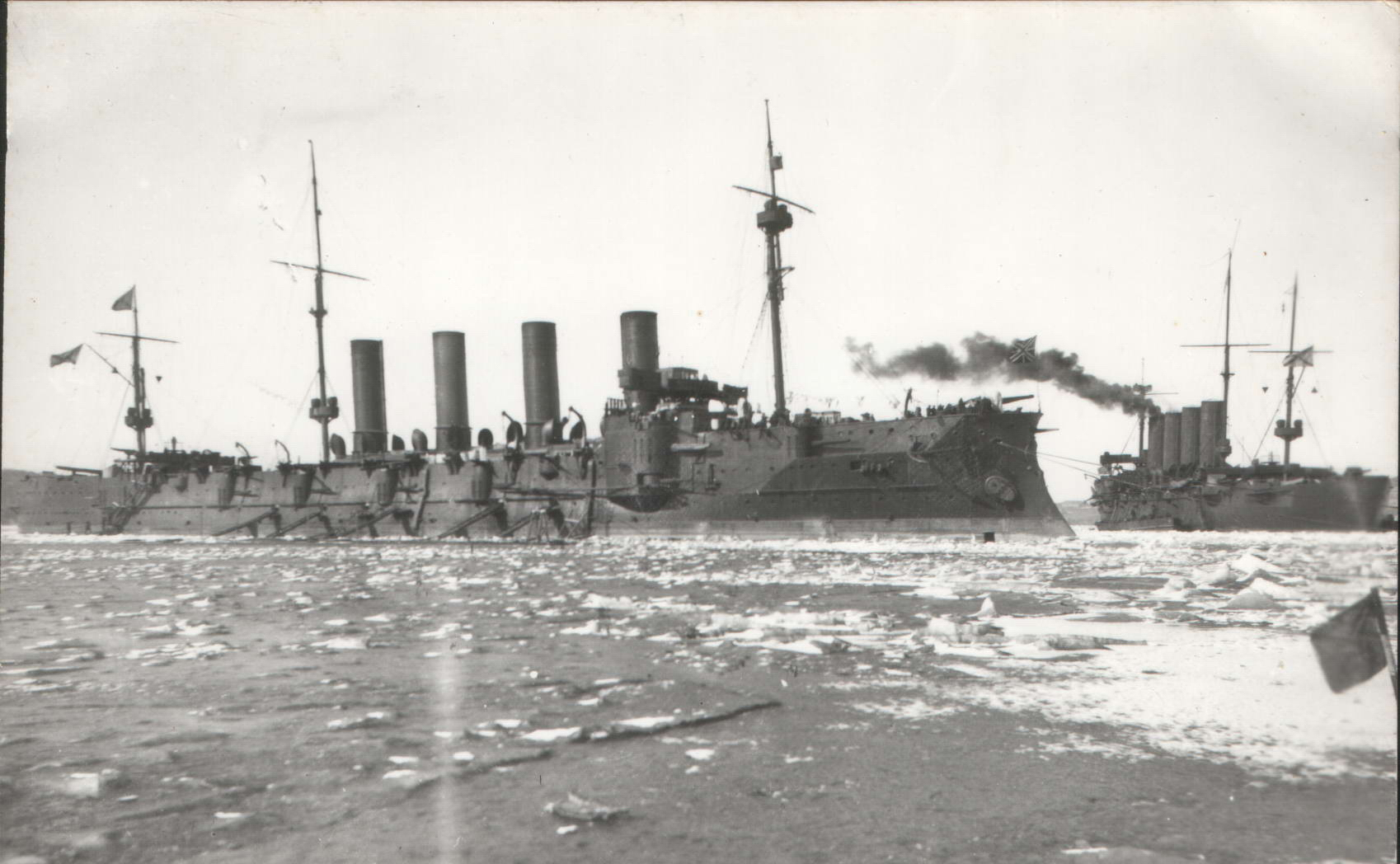 Imperial Russian cruiser Gromoboy in 1904 (right — Rossiya).